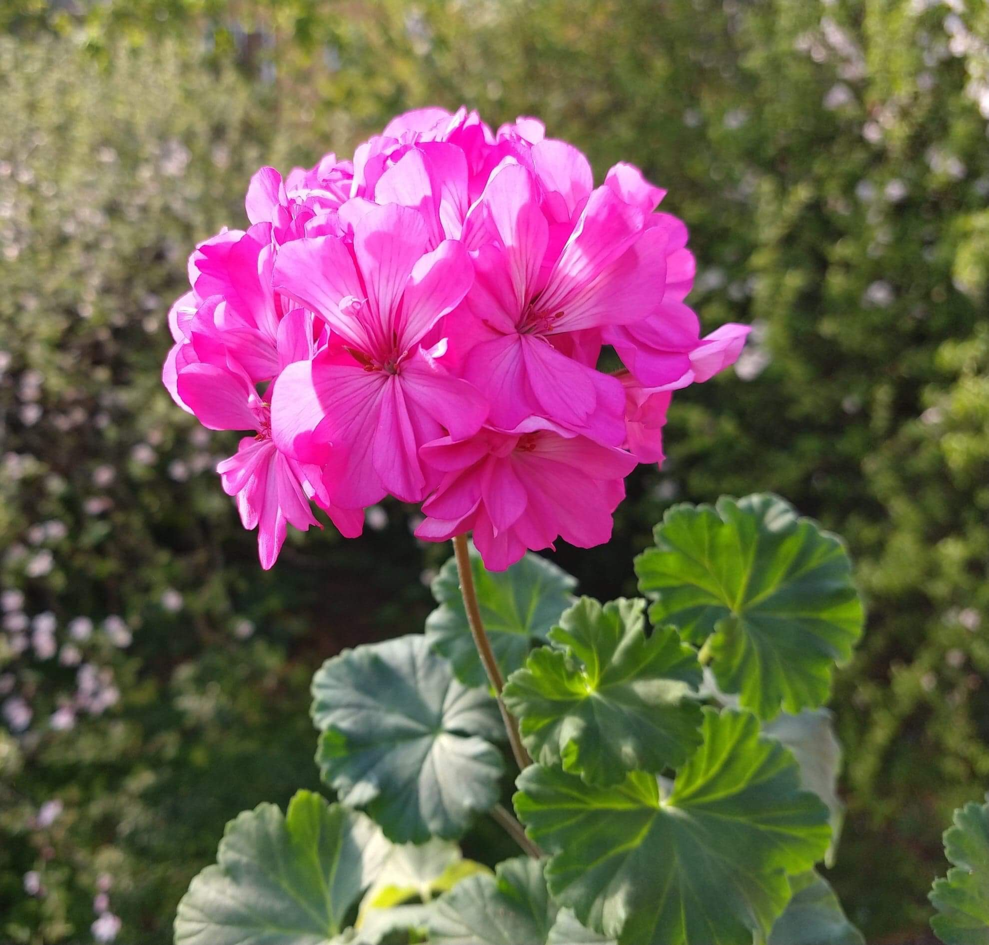 Pelargonium with the name Knapa-trädet